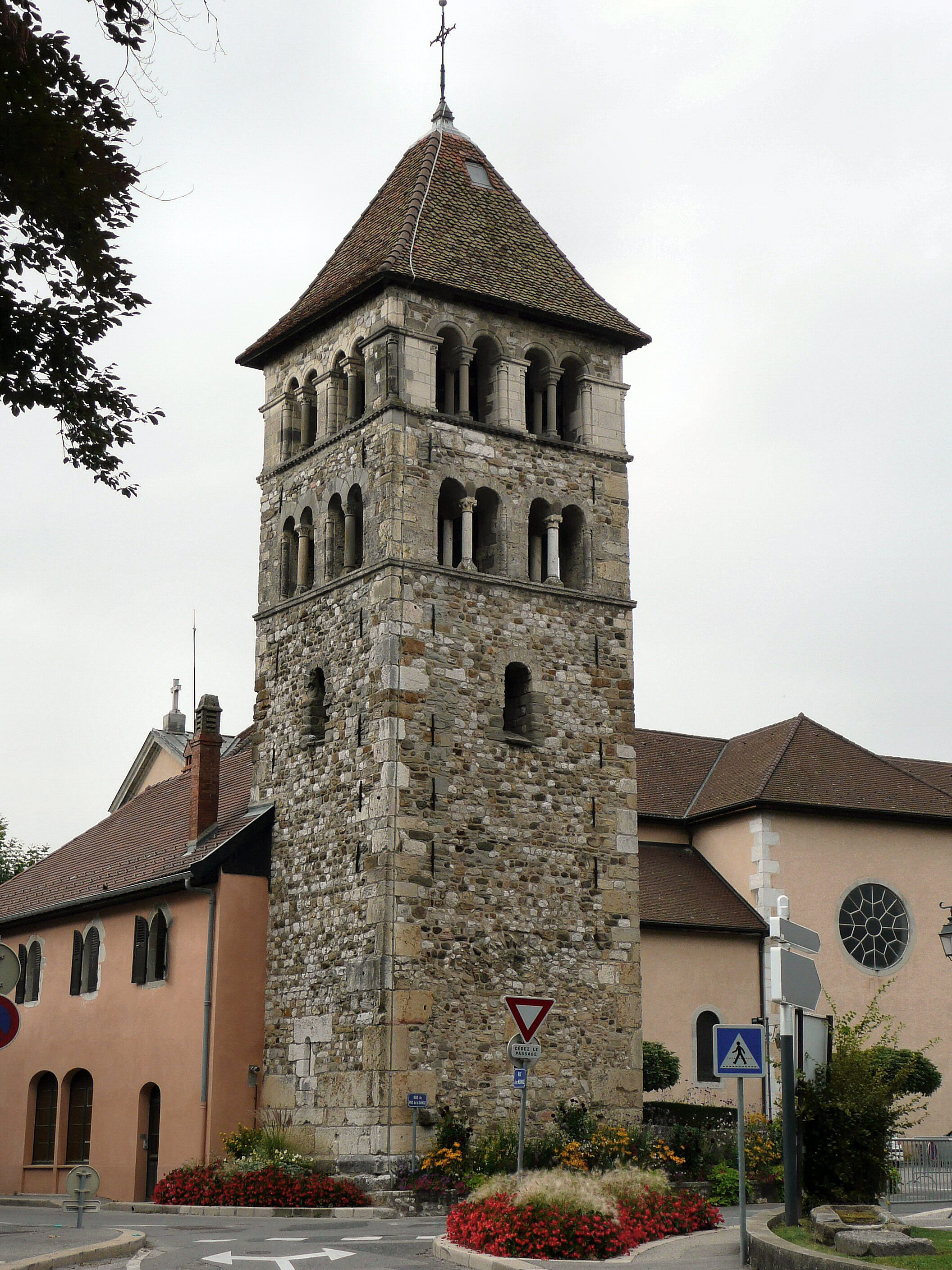 Bell tower of the church Notre-Dame of Annecy-le-Vieux, devastated during French revolution